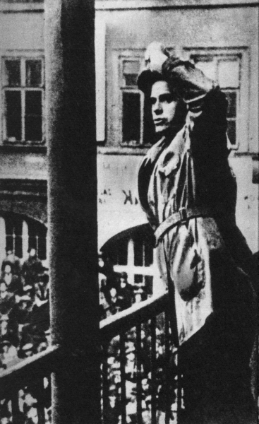 General strike in 1920